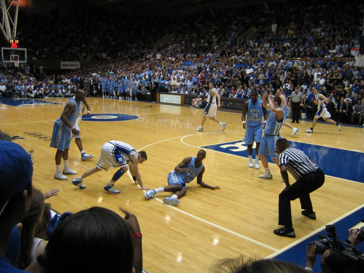 North Carolina Tar Heels vs. Duke Blue Devils men's basketball at Cameron Indoor Stadium, March 2006.